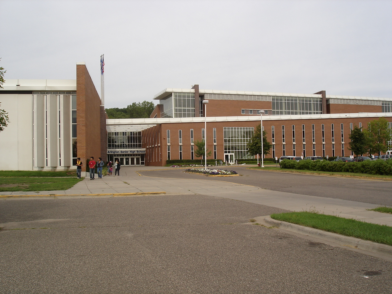 Exterior shot of Arlington Senior High School